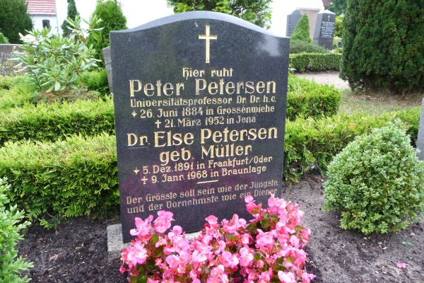 Picture of the grave of Peter Petersen in Grossenwiehe